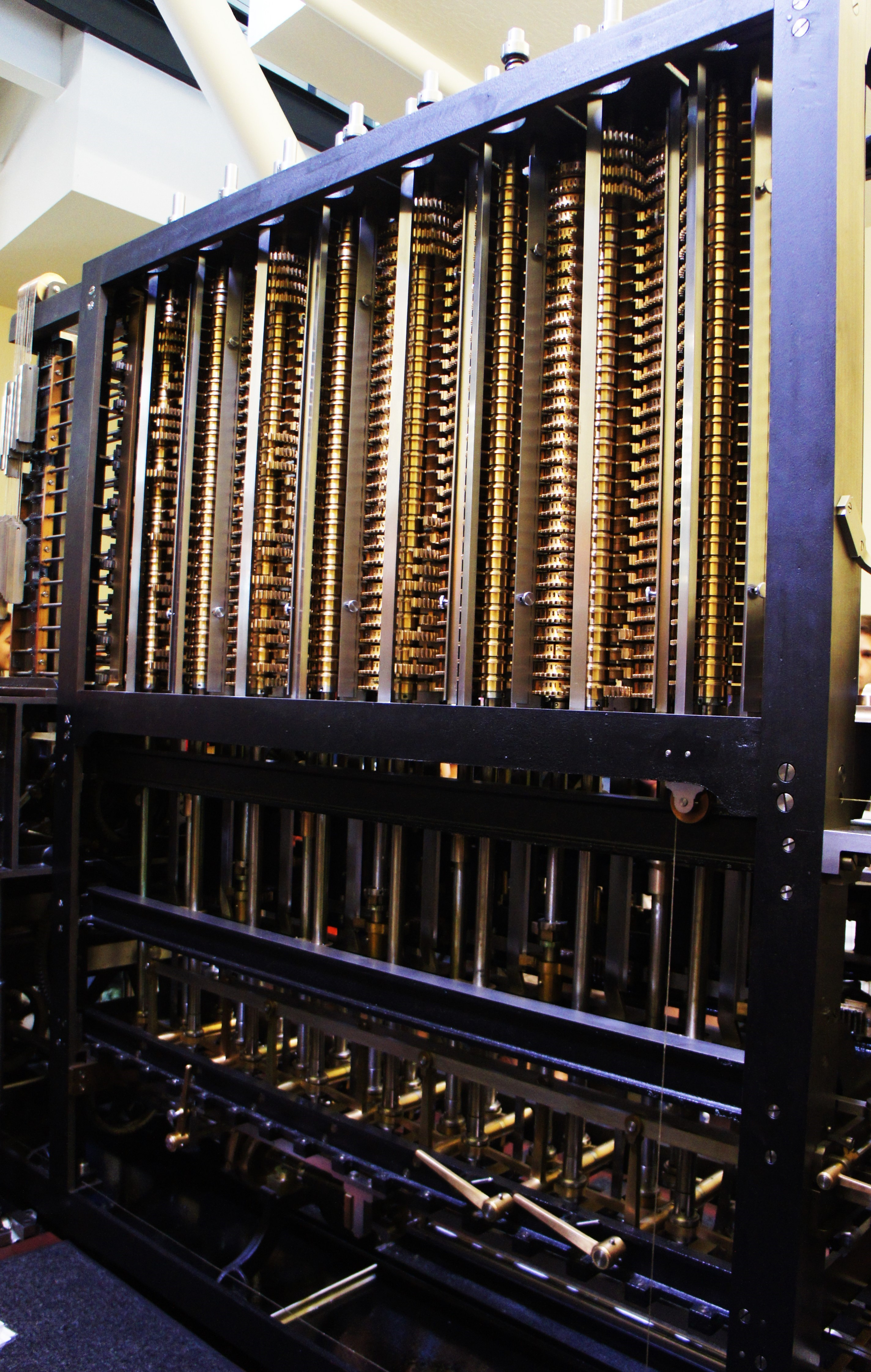 Charles Babbage's Difference Engine on Display at the Computer History Museum